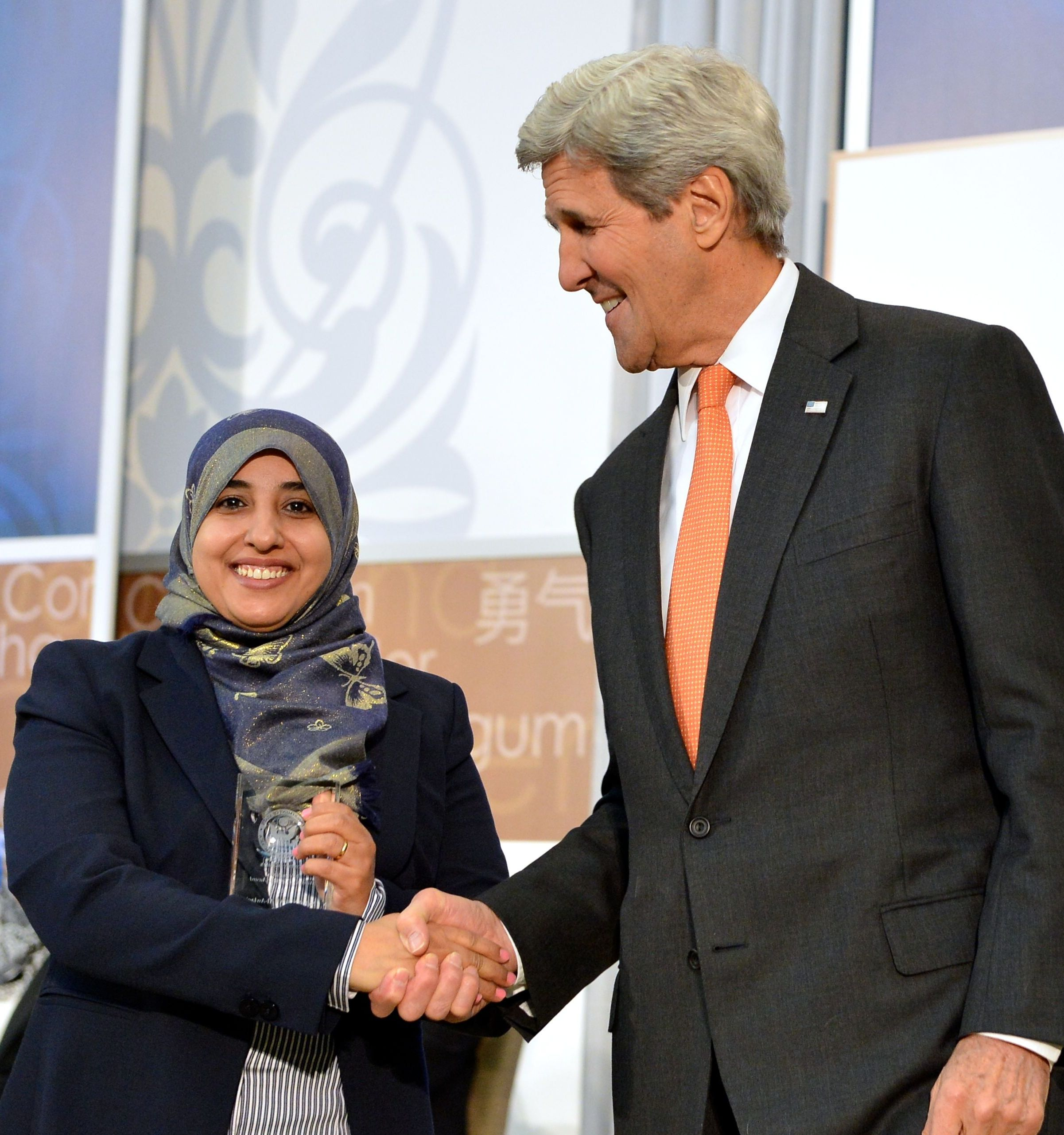 Nihal Naj Ali Al-Awlaqi with John Kerry at the International Women of Courage Awards 2016